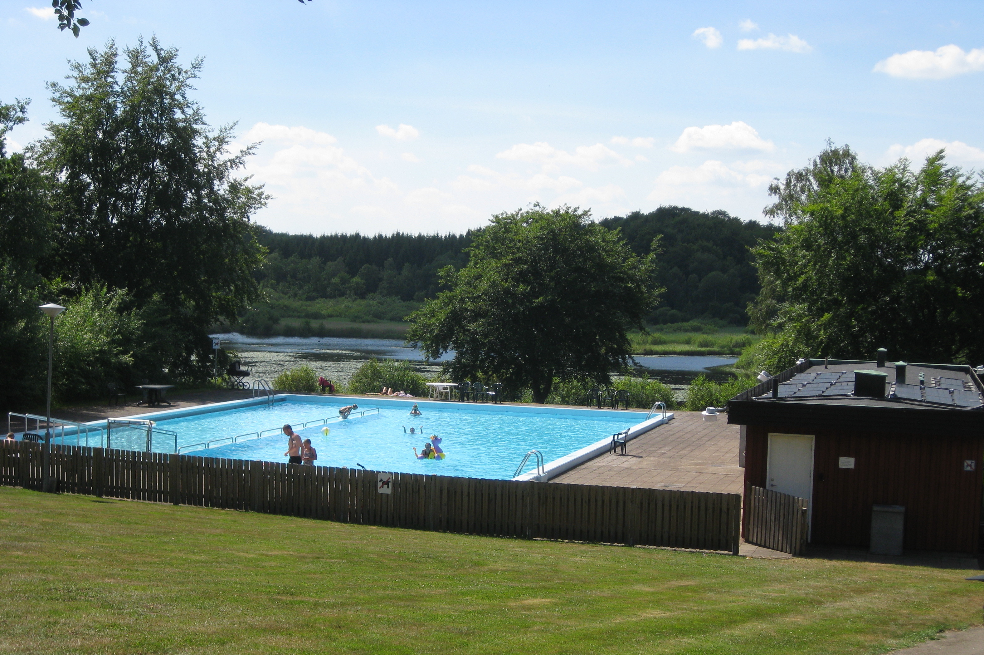 Swimmingpool at Tjörnarps kursgård in Tjörnarp, Skåne, Sweden